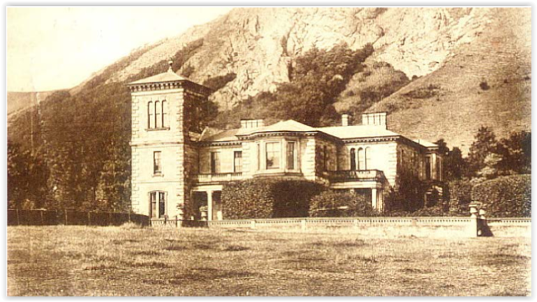 Huis van Robert Kirke in Schotland, kostbaar afgewerkt met Surinaams hardhout van Berlijn. Foto 1906.